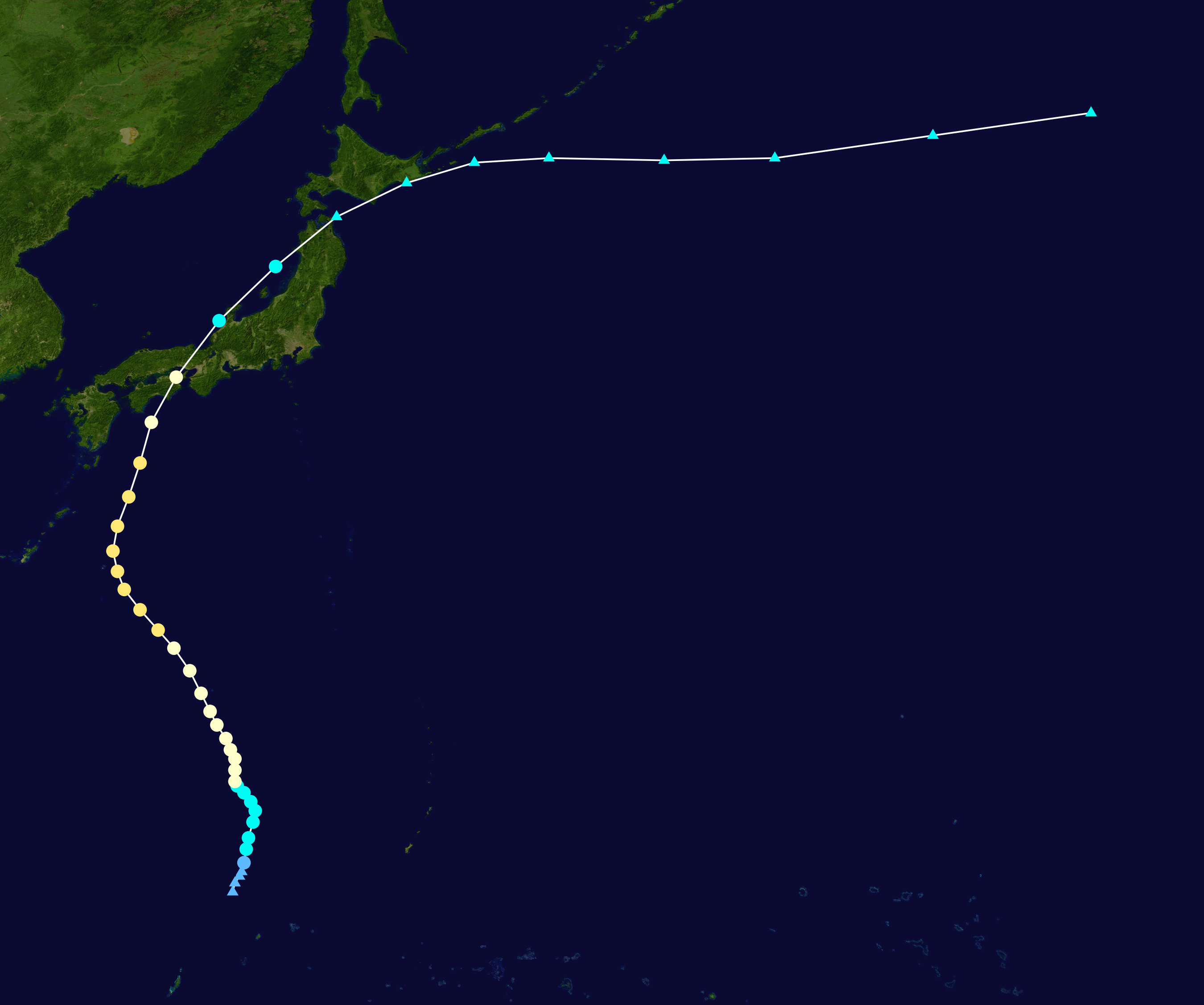 Typhoon Kelly 1987 track. Uses the color scheme from the Saffir-Simpson Hurricane Scale.